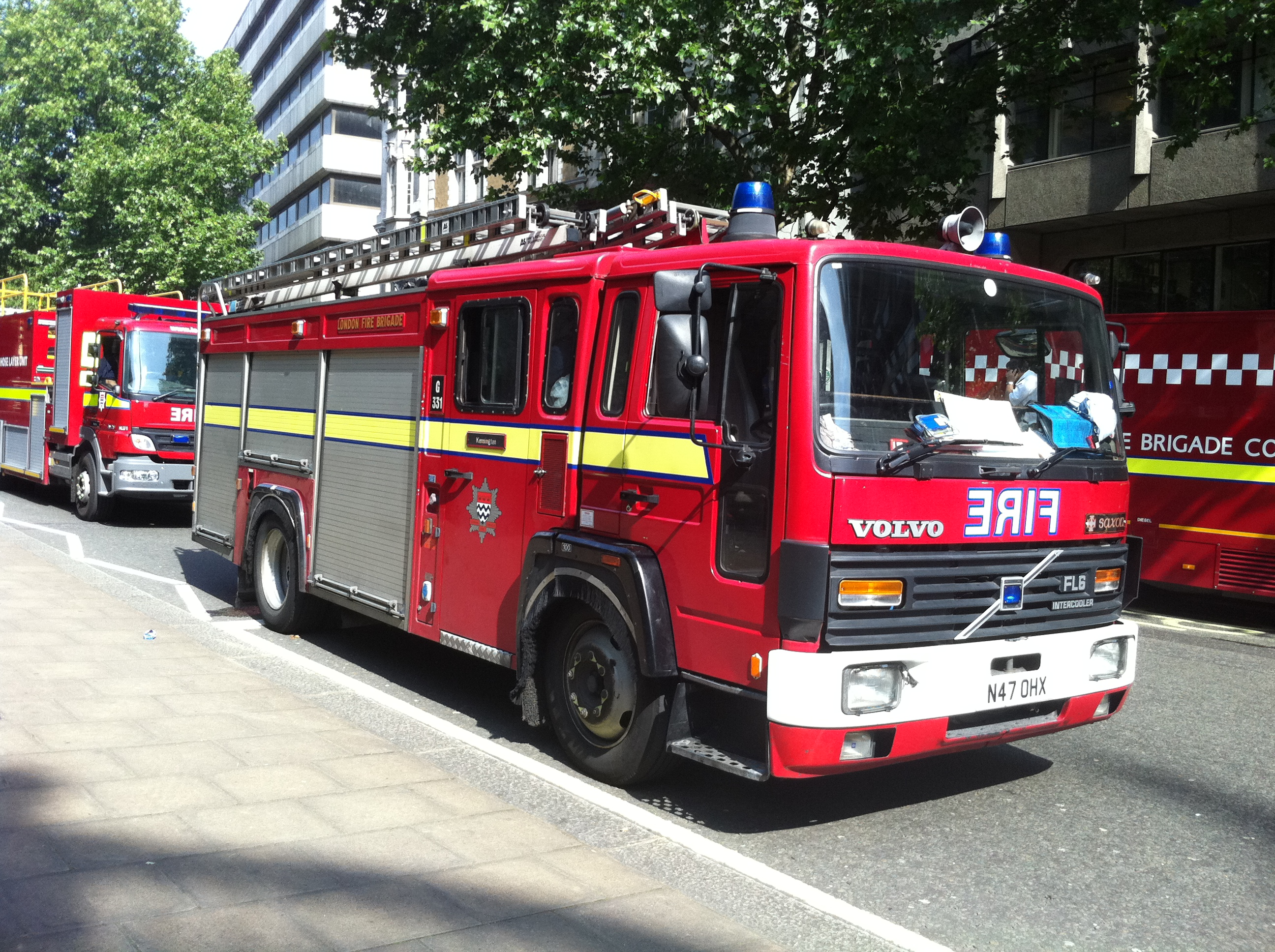 A 1995 Volvo fire engine of the London Fire Brigade at an incident on the Strand, central London